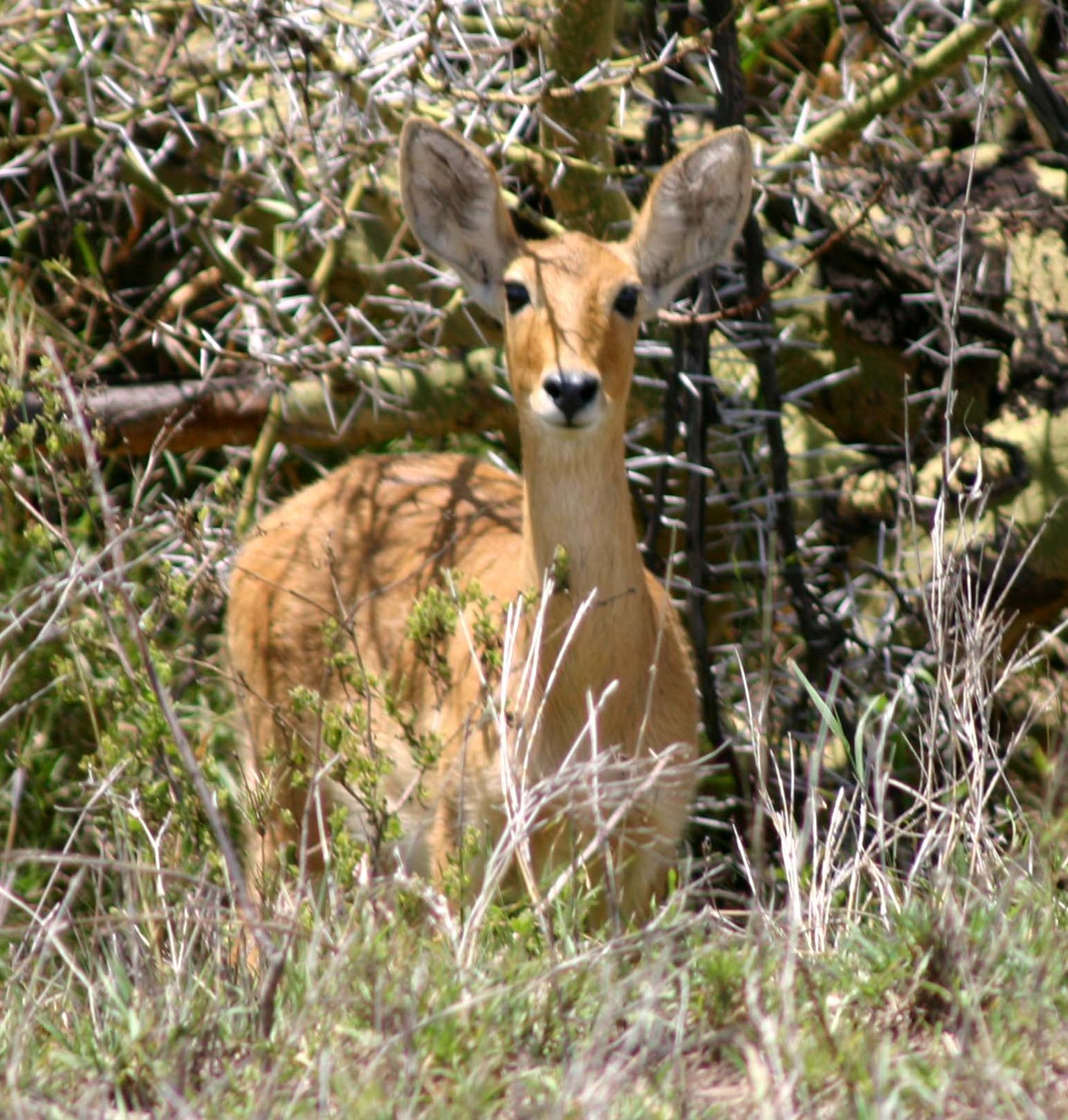 Reed buck. Photograph taken in South Africa using a Canon EOS300D and Canon 300mm Image Stabilizer EF lens with Skylight 1A filter.